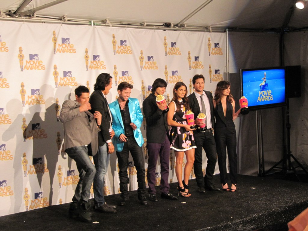 Alex Meraz, Chaske Spencer, Jackson Rathbone, Kiowa Gordon, Nikki Reed, Peter Facinelli & Elizabeth Reaser, cast of "Twilight Saga: New Moon" at 2010 MTV Movie Awards.